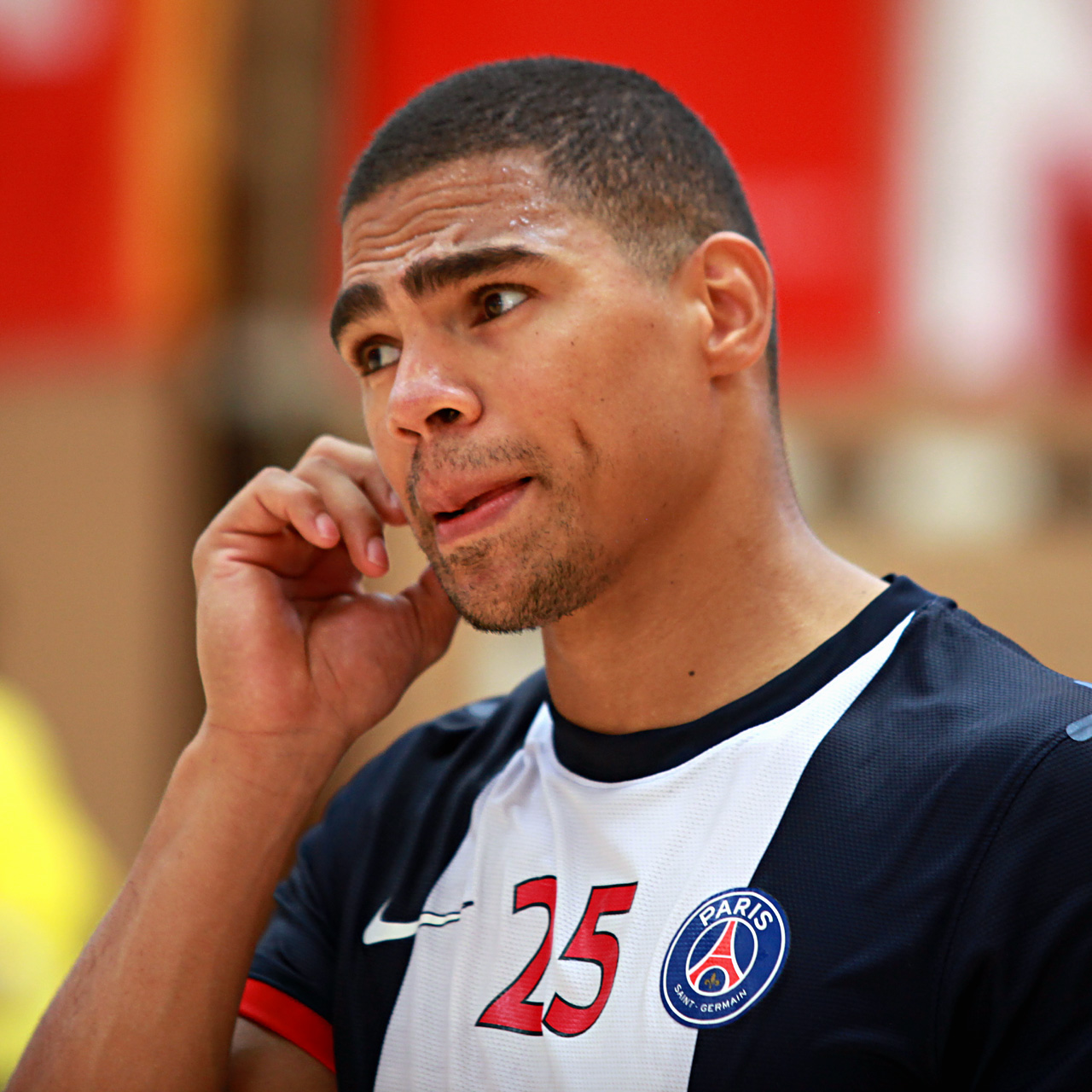 Daniel Narcisse, on August 17th, 2012 in Ehingen (Germany), during the Sparkassen Cup (formerly known as Schlecker Cup).